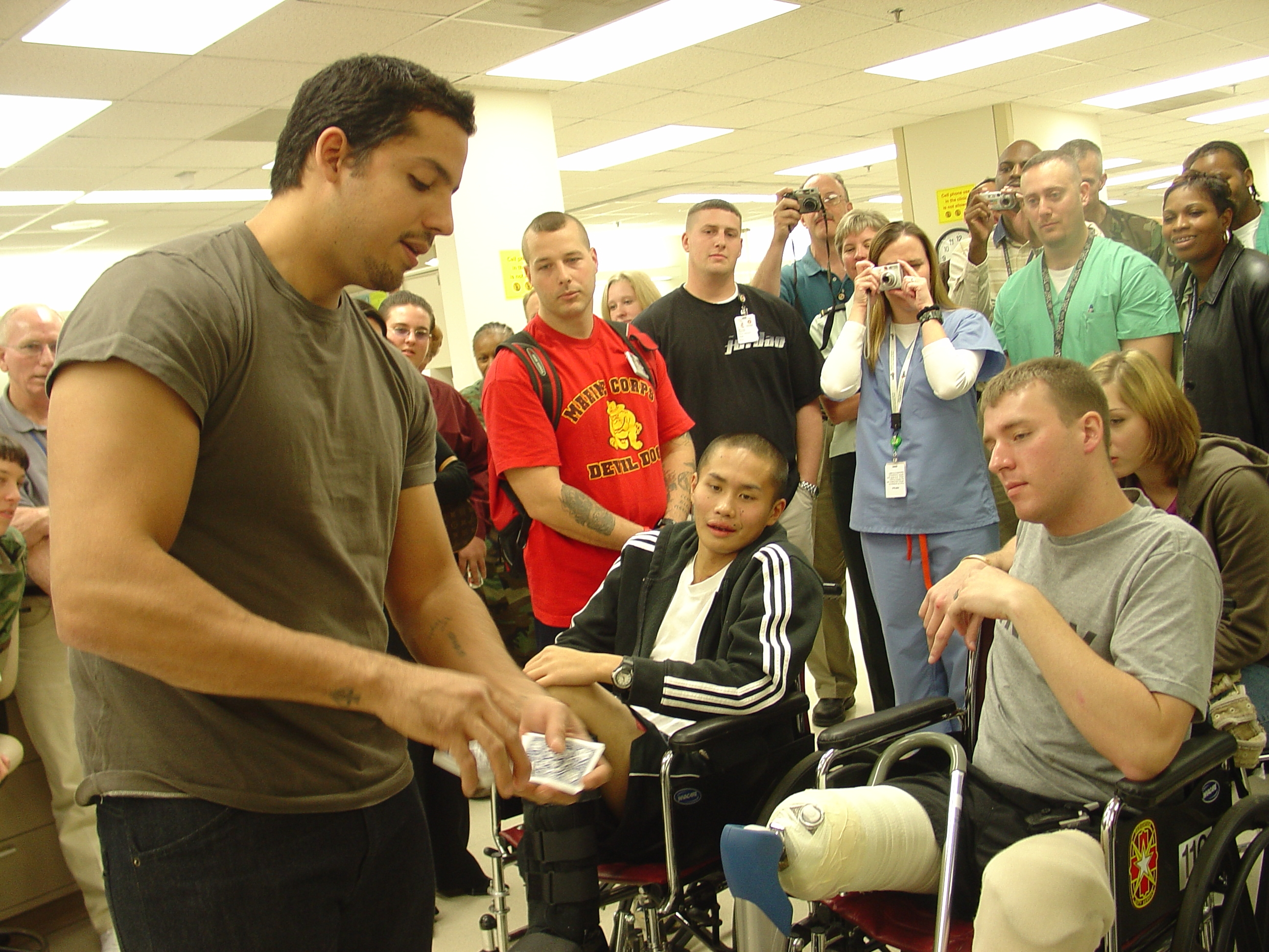 David Blaine at Brooke Army Medical Center performing "street magic" for the patients and staff.